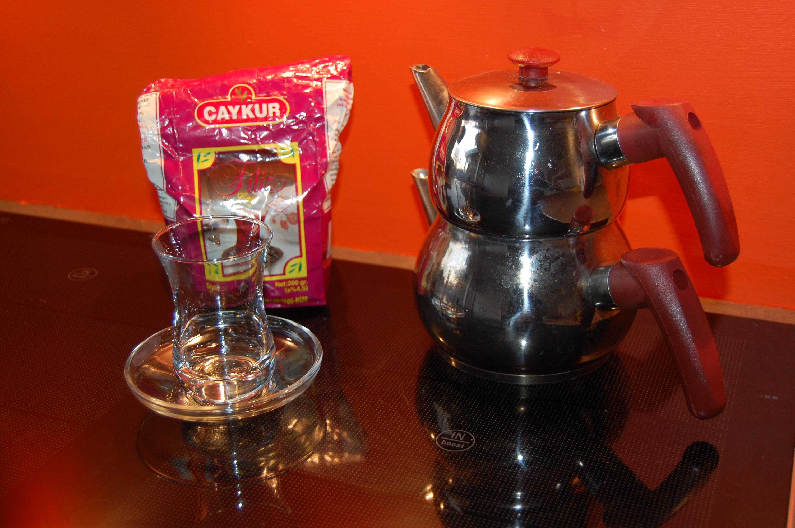 Making turkisch tea on a induction plate